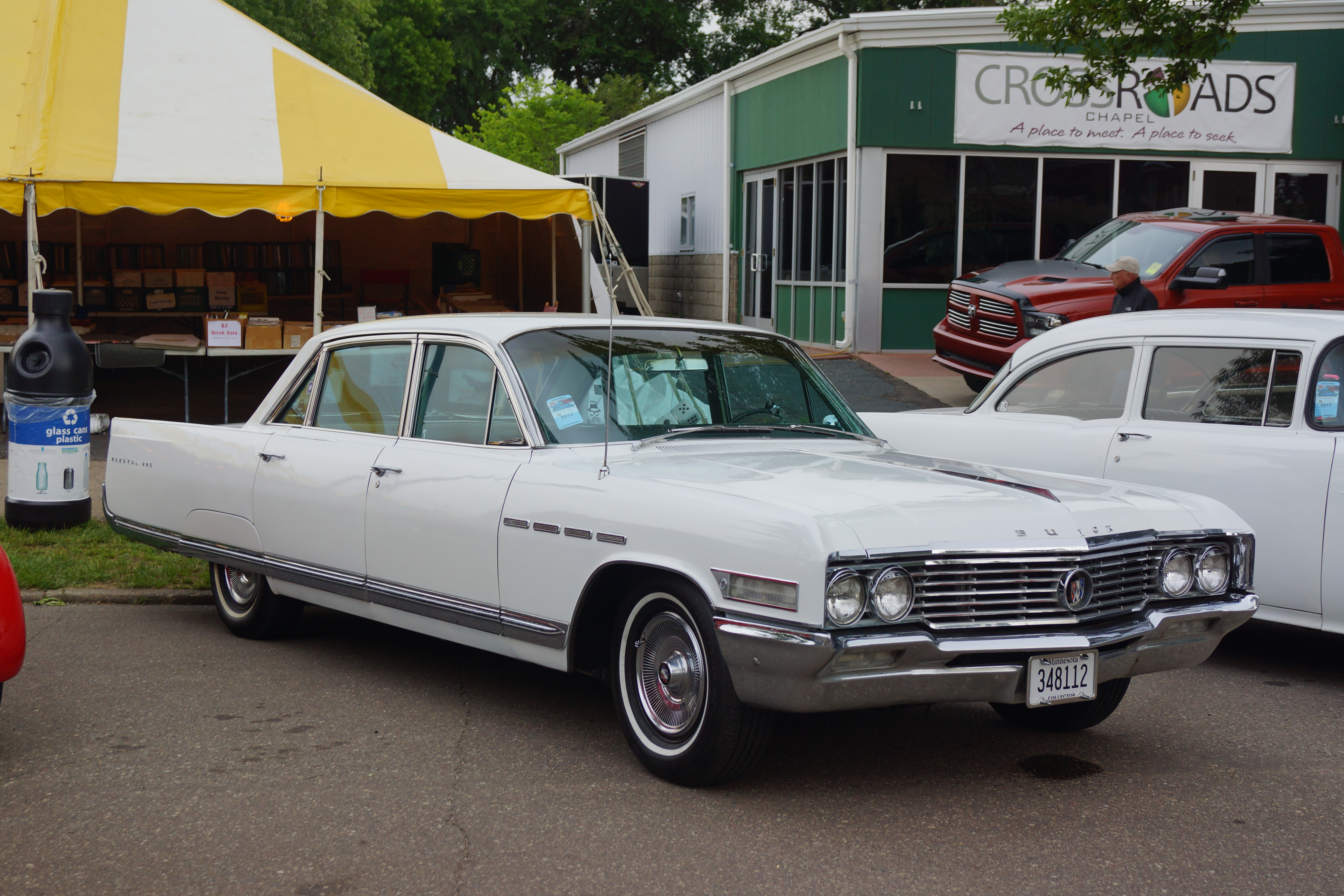 Minnesota Street Rod Association (MSRA) “BACK TO THE 50′s” 44th Annual Car Show June 23-25, 2017 Minnesota State Fairgrounds St. Paul Minnesota